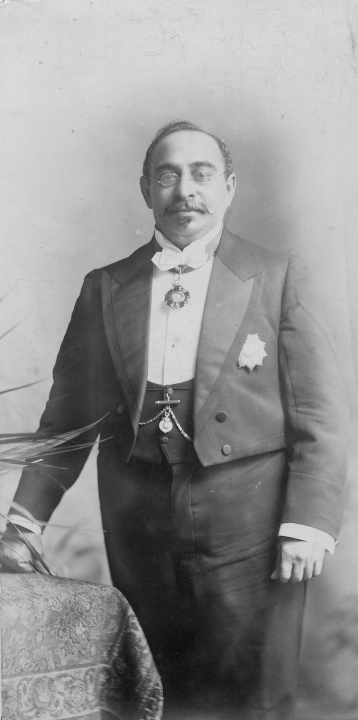 Mancherjee Bhownagree